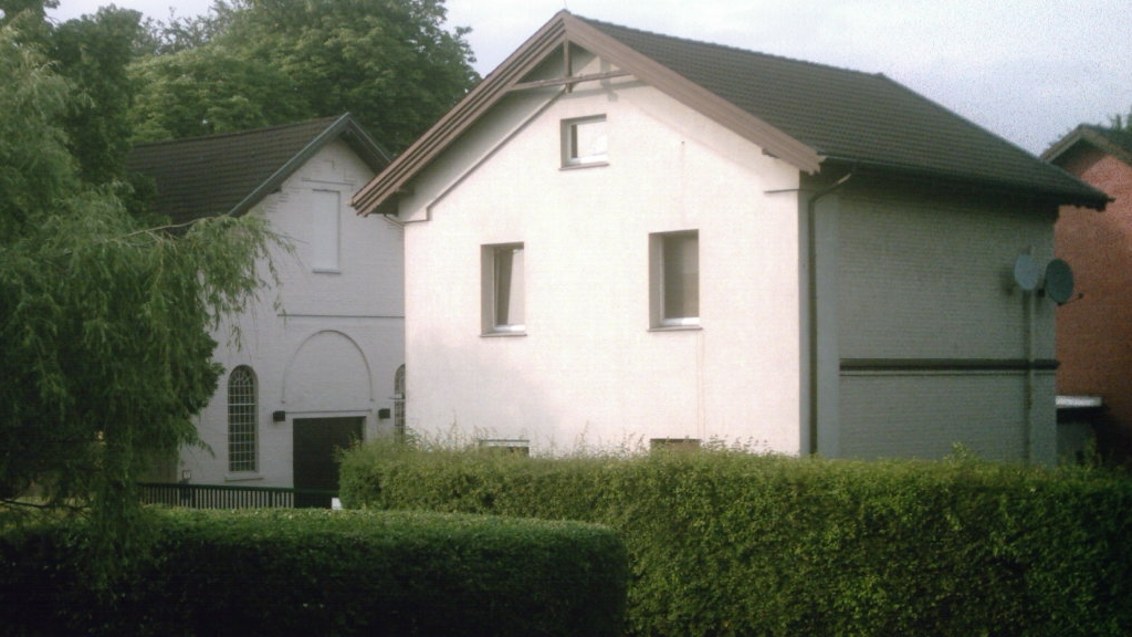 Pumping station Helenabrunn, Mönchengladbach, Germany.